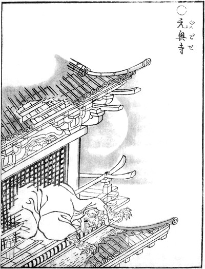 Gagoze (元興寺, a demon who attacked young priests at Gangō-ji temple) from the Gazu Hyakki Yakō (画図百鬼夜行)